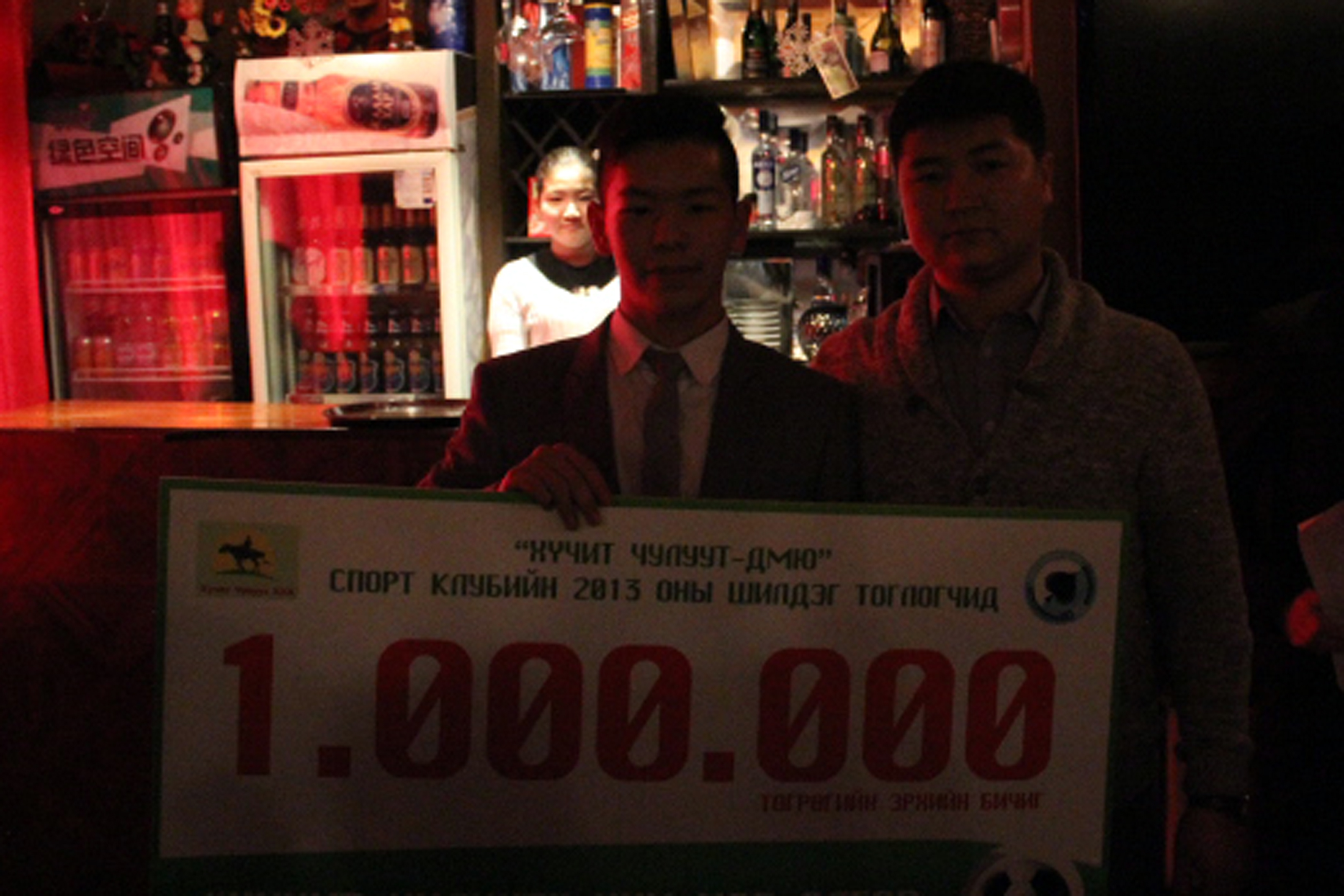 2014.01.01. Клүбийн ерөнхийлөгч Б.Батзаяа 2014 оны шилдэг тоглогч Ц.Отгонтэнгэрийг сая төгрөгөөр урамшуулав.